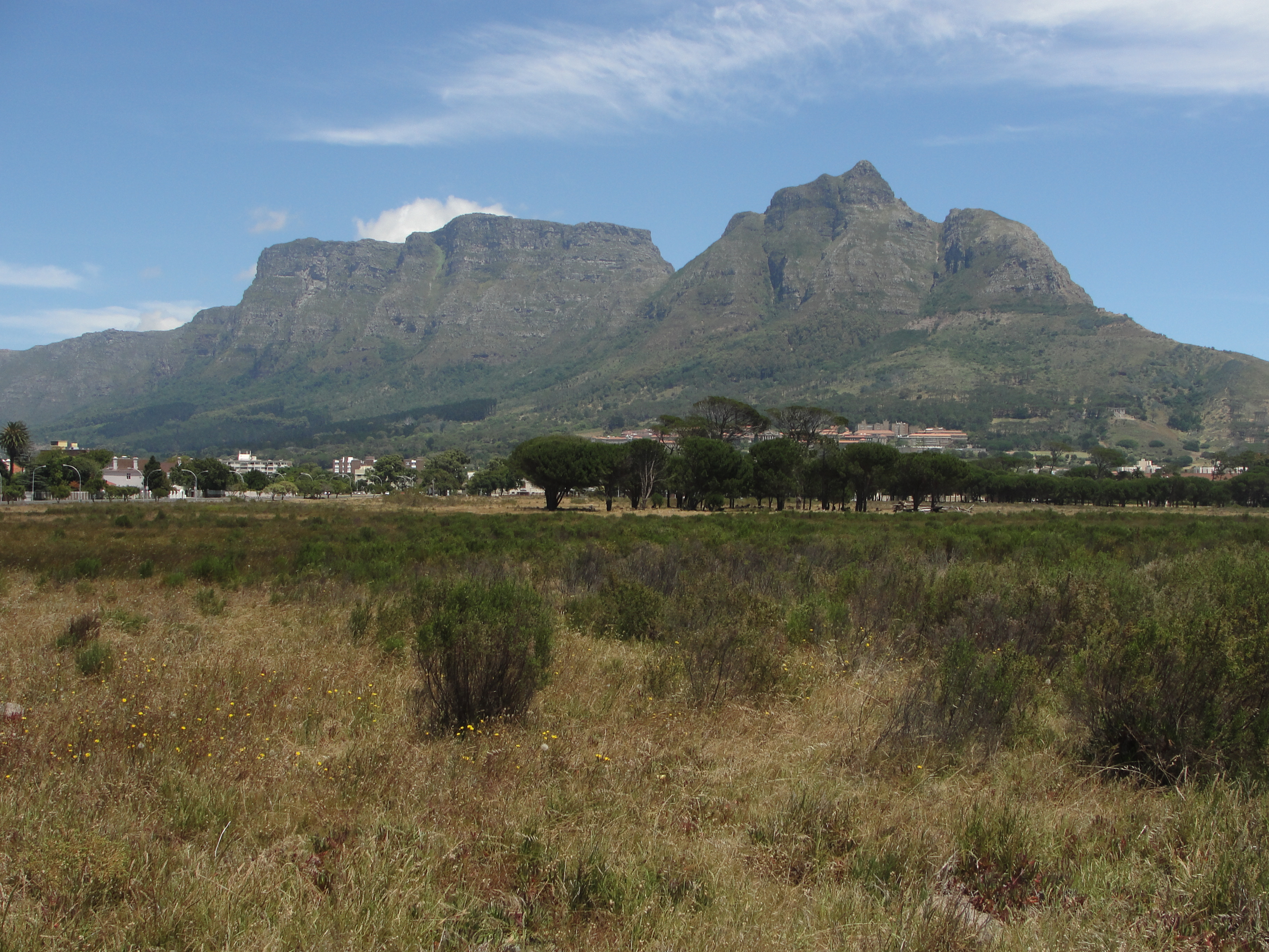 Rondebosch Common, with Table Mountain and Devil's Peak in the background This media shows a South African Protected Site with SAHRA file reference 9/2/111/0102.